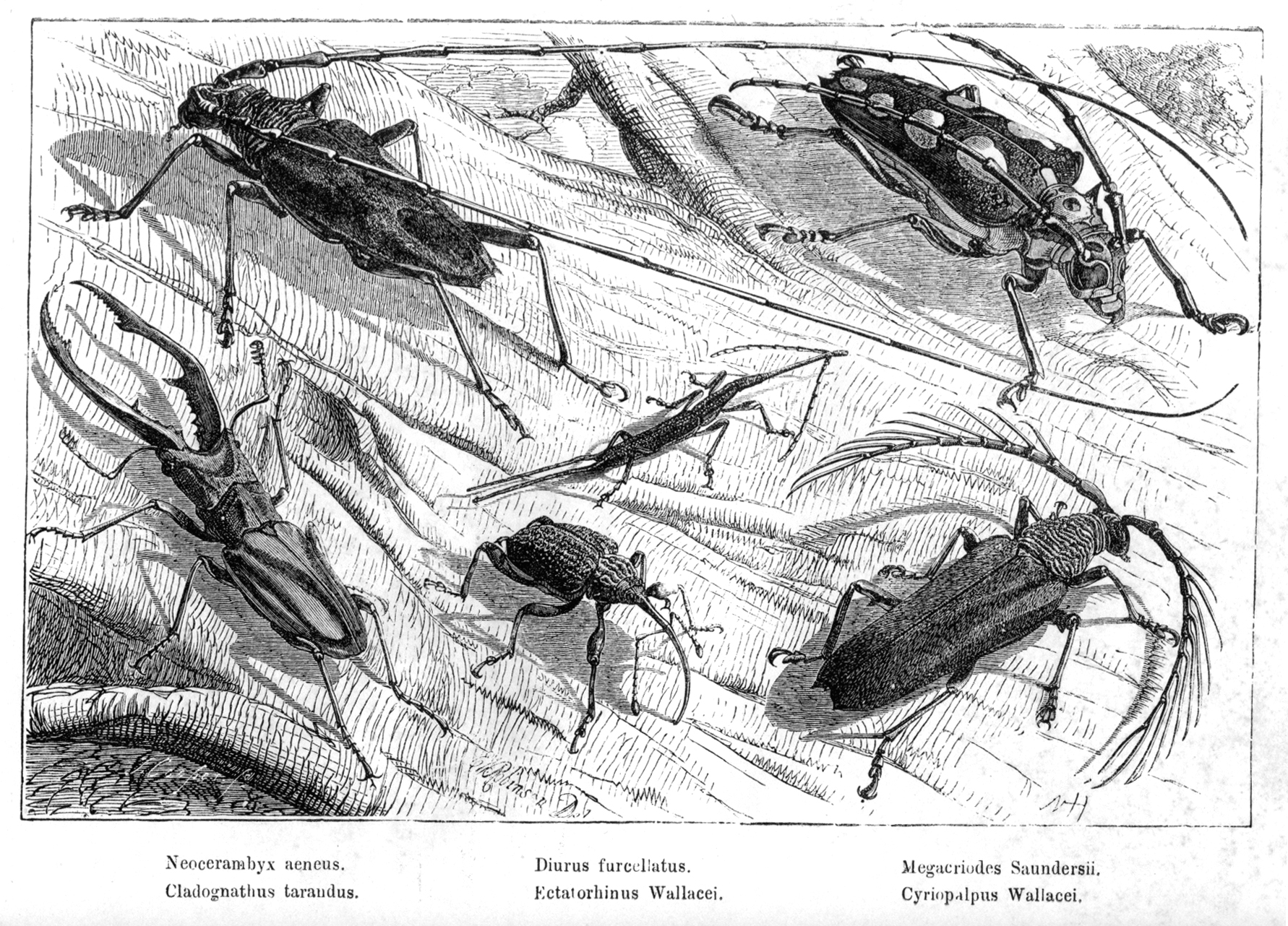 Top left: Neocerambyx aeneus = Aeolesthes aurifaber (White, 1853) Top right: Megacriodes Saundersii = Batocera saundersii (Pascoe, 1866) Center: Diurus furcellatus [sic] = Diurus furcillatus Gyllenhal, 1833 Bottom left: Cladognathus tarandus = Cyclommatus tarandus (Thunberg, 1806) Bottom center: Ectatorhinus Wallacei = Ectatorhinus wallacei Lacordaire, 1866 Bottom right: Cyriopalpus [sic] Wallacei = Cyriopalus wallacei Pascoe, 1866 "Remarkable beetles found at Simunjon [River], Borneo When I arrived at the mines, on the 14th of March [1855], I had collected in the four preceding months, 320 different kinds of beetles. In less than a fortnight I had doubled this number, an average of about 24 new species every day. On one day I collected 76 different kinds, of which 34 were new to me. By the end of April I had more than a thousand species, and they then went on increasing at a slower rate, so that I obtained altogether in Borneo about two thousand distinct kinds, of which all but about a hundred were collected at this place, and on scarcely more than a square mile of ground. The most numerous and most interesting groups of beetles were the Longicorns and Rhynchophora, both pre-eminently wood-feeders. The former, characterised by their graceful forms and long antenna, were especially numerous, amounting to nearly three hundred species, nine-tenths of which were entirely new, and many of them remarkable for their large size, strange forms, and beautiful colouring. The latter correspond to our weevils and allied groups, and in the tropics are exceedingly numerous and varied, often swarming upon dead timber, so that I sometimes obtained fifty or sixty different kinds in a day. My Bornean collections of this group exceeded five hundred species." (A.R. Wallace)